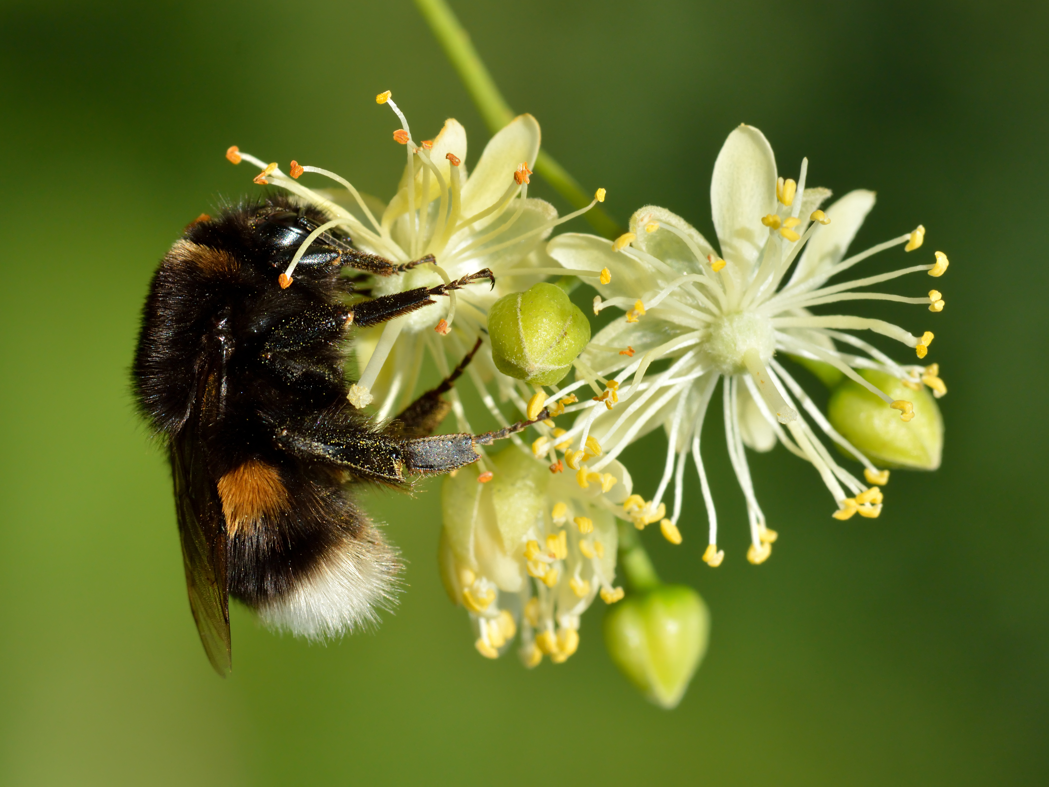 Large earth bumblebee queen (Bombus terrestris) on the flowers of small-leaved lime (Tilia cordata). Keila, Northwestern Estonia.